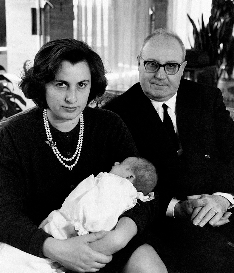 Italian politician and Minister of Foreign Affairs of the Italian Republic Giuseppe Saragat sitting with his daughter, Ernestina, and his grandchildren. Rome, April 1963.